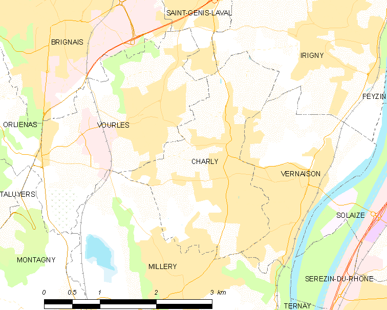 Map of French municipality